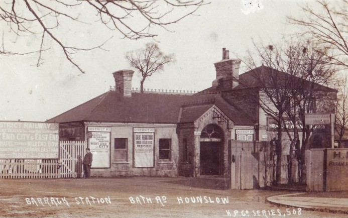 Hounslow Barracks Railway Station, London (now known as Hounslow West)